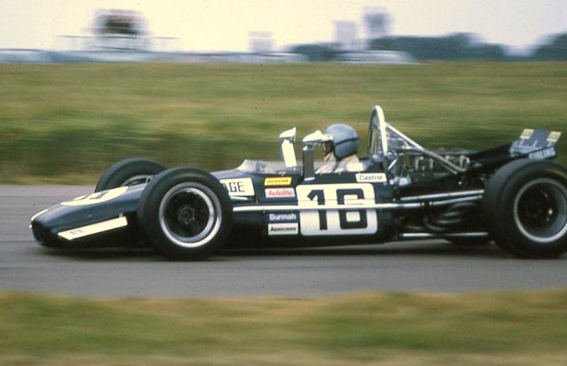 Released under GFDL with the kind permission of the creator of this image, Gerald Swan. The complete set of photos can be seen at the website